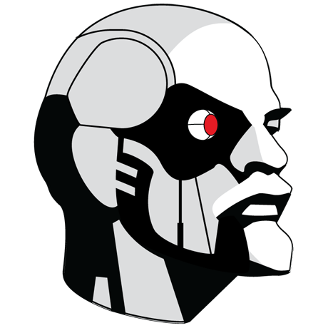 Logo of the CyberLeninka project